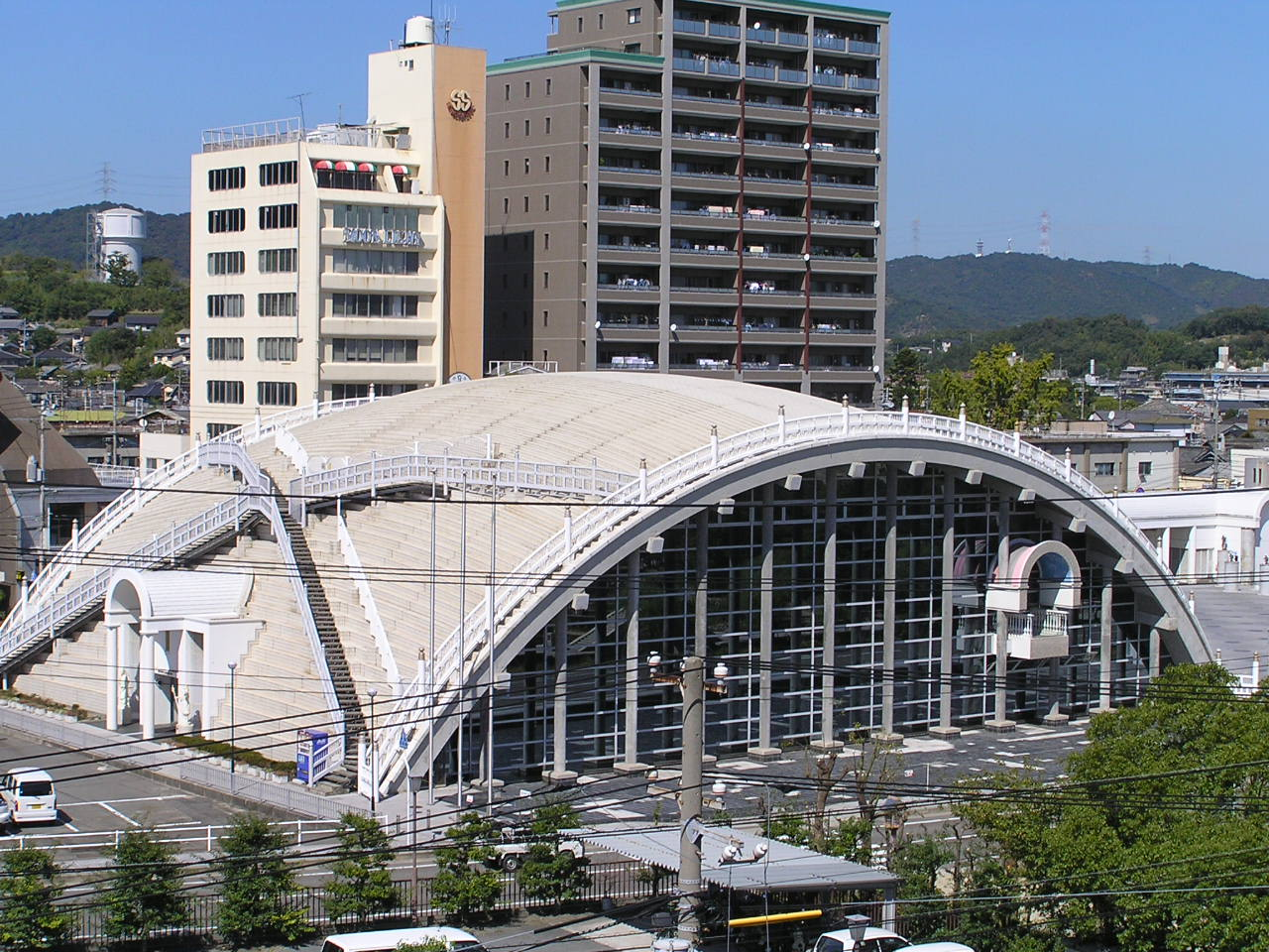 Memorial of Seto Ohashi constructing a bridge